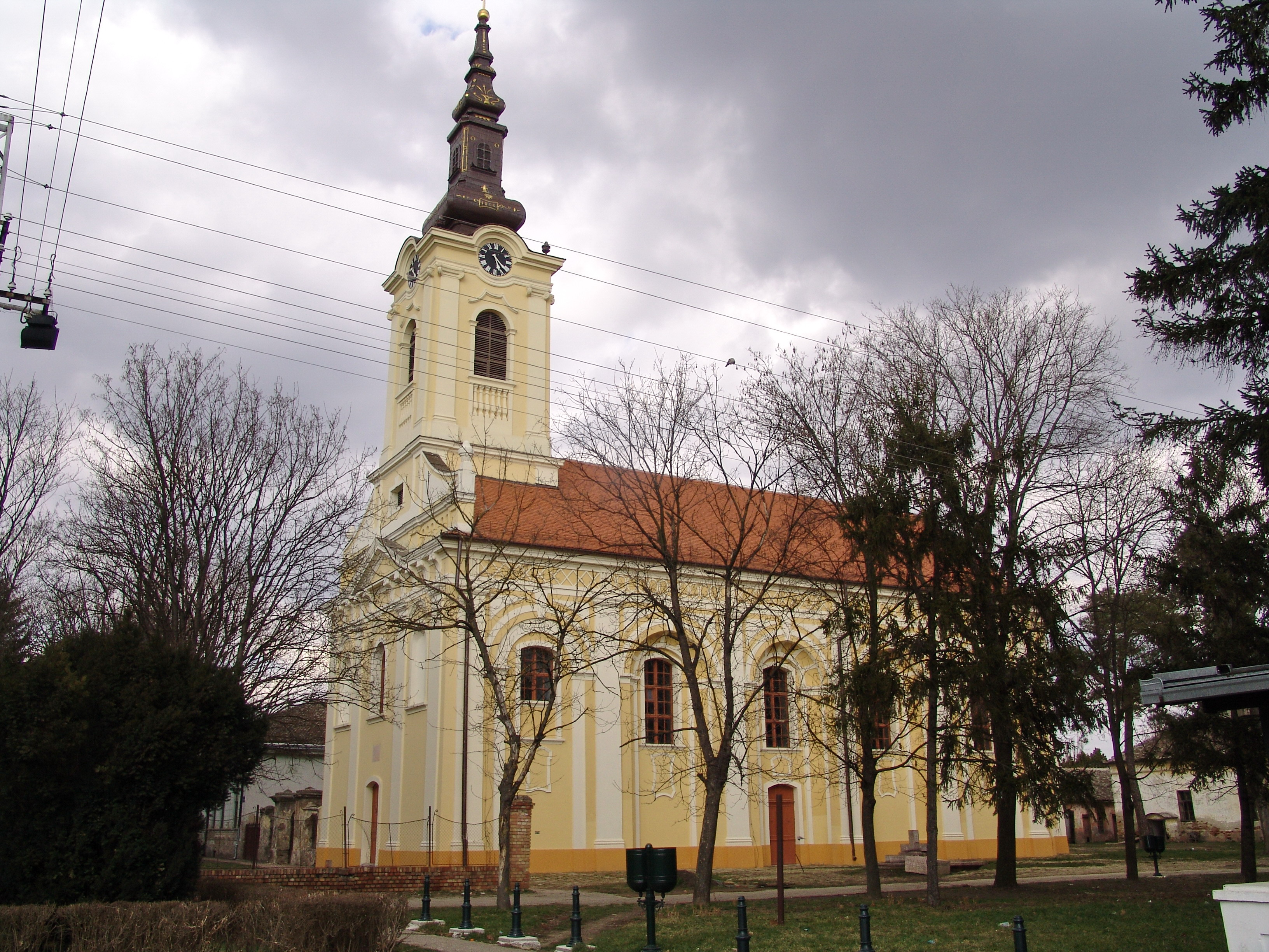 Serbian Orthodox church of the Dormition of the Mother of God in Perlez - southwest